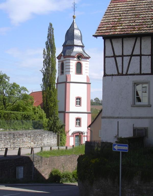 Baroque church in Neidenstein, Germany